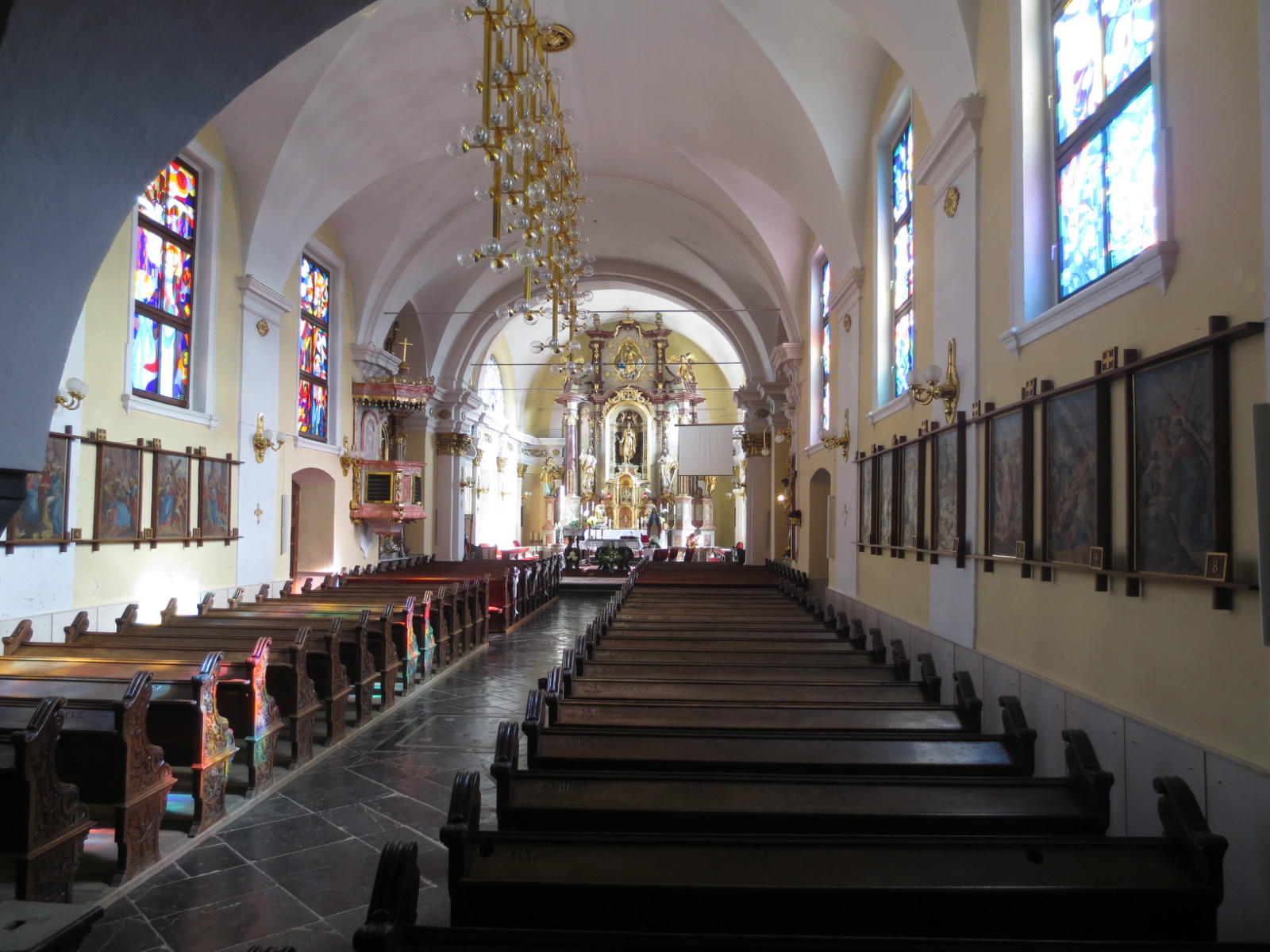 Church St. Vid @ Šentvid pri StičniSlovenščina: Cerkev svetega Vida v Šentvidu pri Stični-notranjost (glavna ladja)